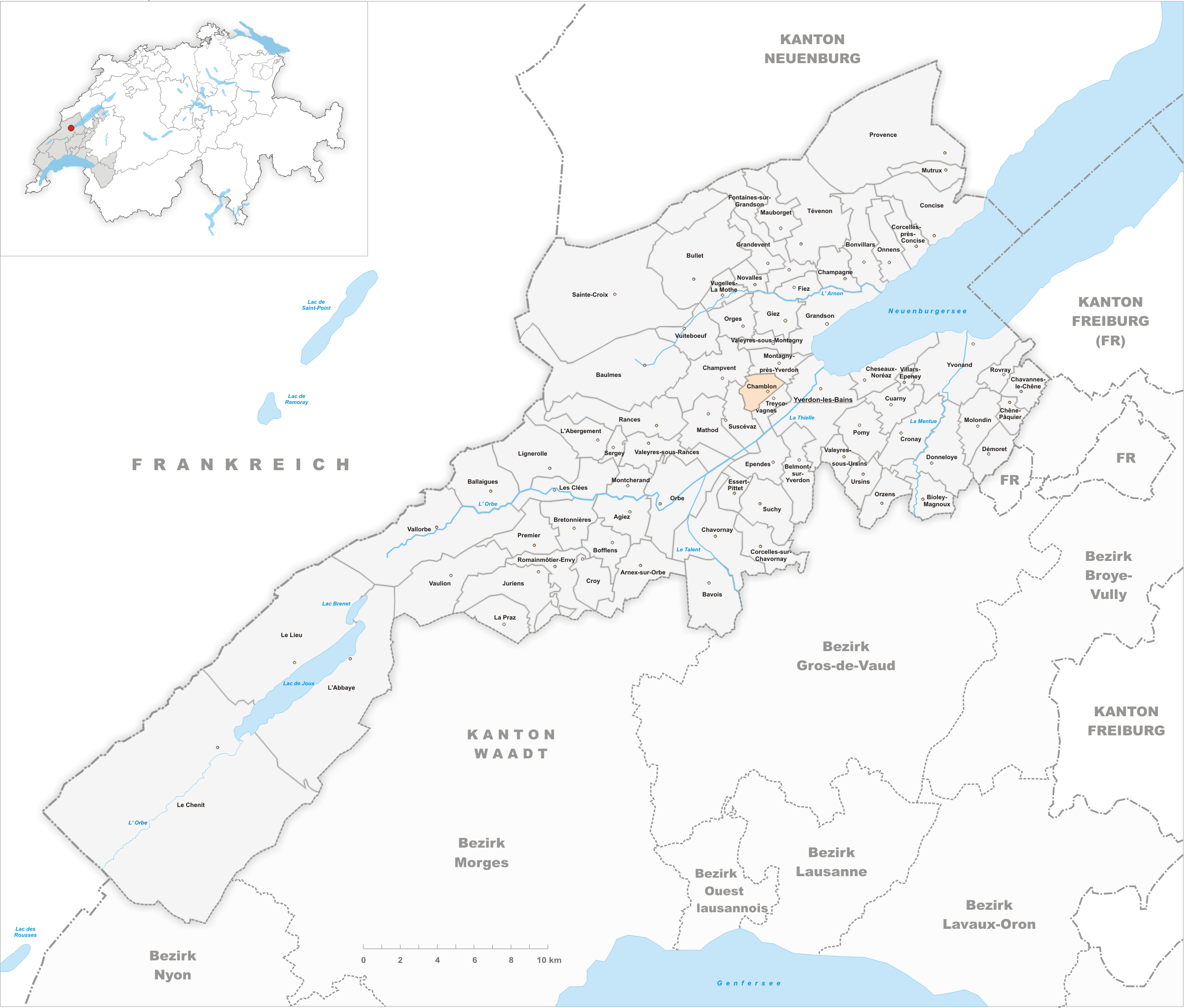 Municipality Chamblon